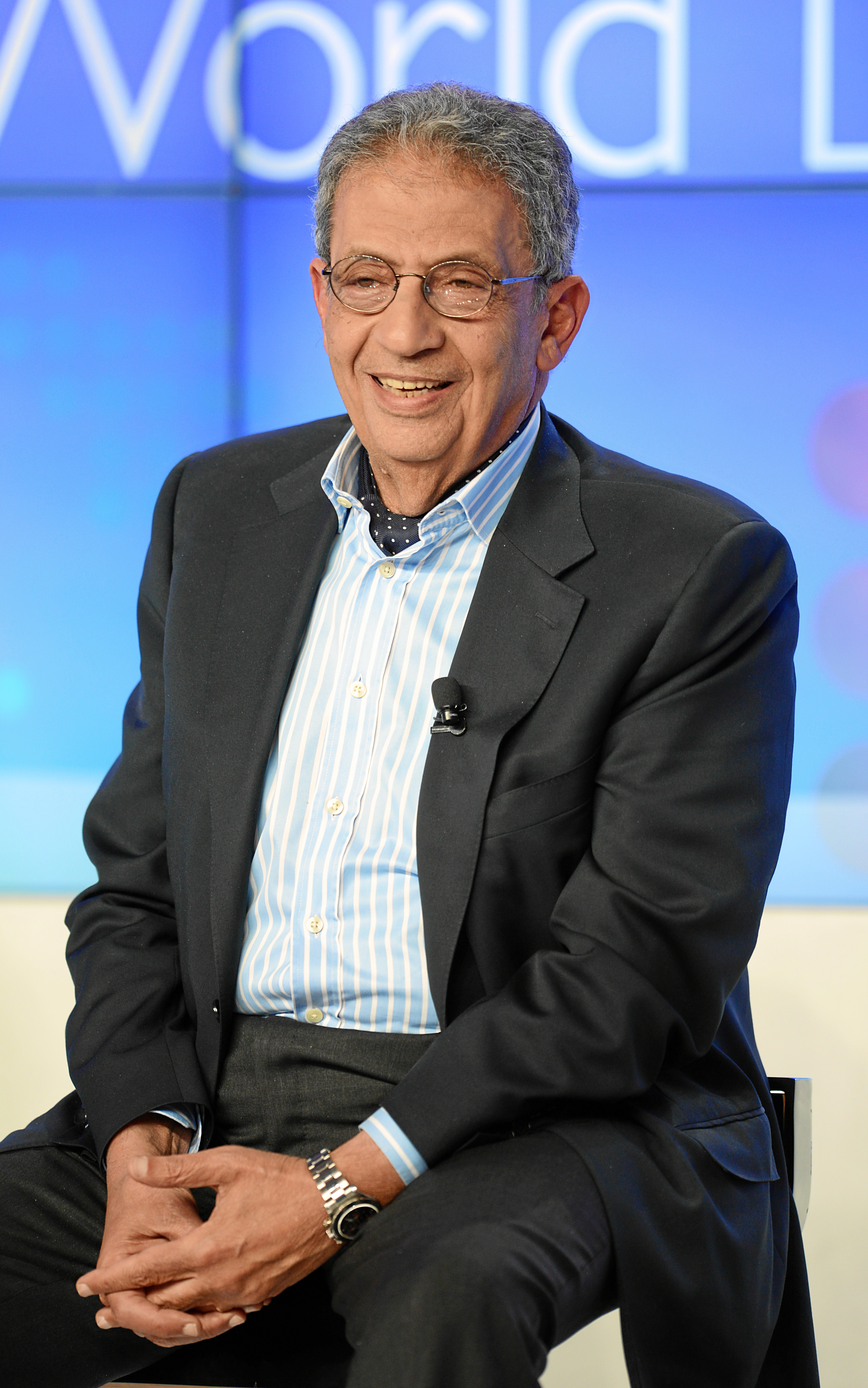 DAVOS/SWITZERLAND, 24JAN13 - Amr Moussa, Secretary-General of the League of Arab States (2001-2011) smiles during the session 'Is Democracy Winning?' at the Annual Meeting 2013 of the World Economic Forum in Davos, Switzerland, January 24, 2013.. . Copyright by World Economic Forum. . Michael Wuertenberg